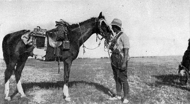 New Zealand mounted trooper with a saddled horse during the Sinai and Palestine Campaign of World War I, c. 1917 Other information Official history N. Z. government copyright